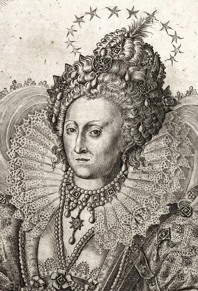 Fragment of an engraving of Queen Elizabeth by Francis Delaram (cropped, mirror flip). Library of Congress description: "The portrait of Queen Elizabeth from Camden's Historie, 1630, engraved by Francis Delaram after an original by Nicholas Hilliard" (more at [1])